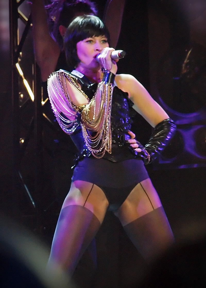 Swedish singer Hanna Lindblad performing in Melodifestivalen 2010, Sandviken, Sweden.